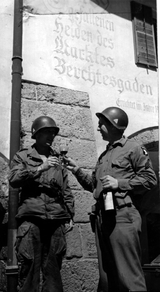 WITH THE SEVENTH ARMY, Germany (Delayed) - Sgt. Carl G. Henning, 2019 Youngstown SE, Warren O. (left), and Sgt. Francis E. Backensto, Mansfield, O. (right), toast our victory with a bottle of wine from Adolf Hitler's private cellar in the Berchtesgaden hideaway. Sgt. Henning i[s] a member of the 81st A[n]ti-Aircraft A[rt]i[ll]ery Bat[t]alion and Sgt. Backensto is serving with the 101st Airborne Division.